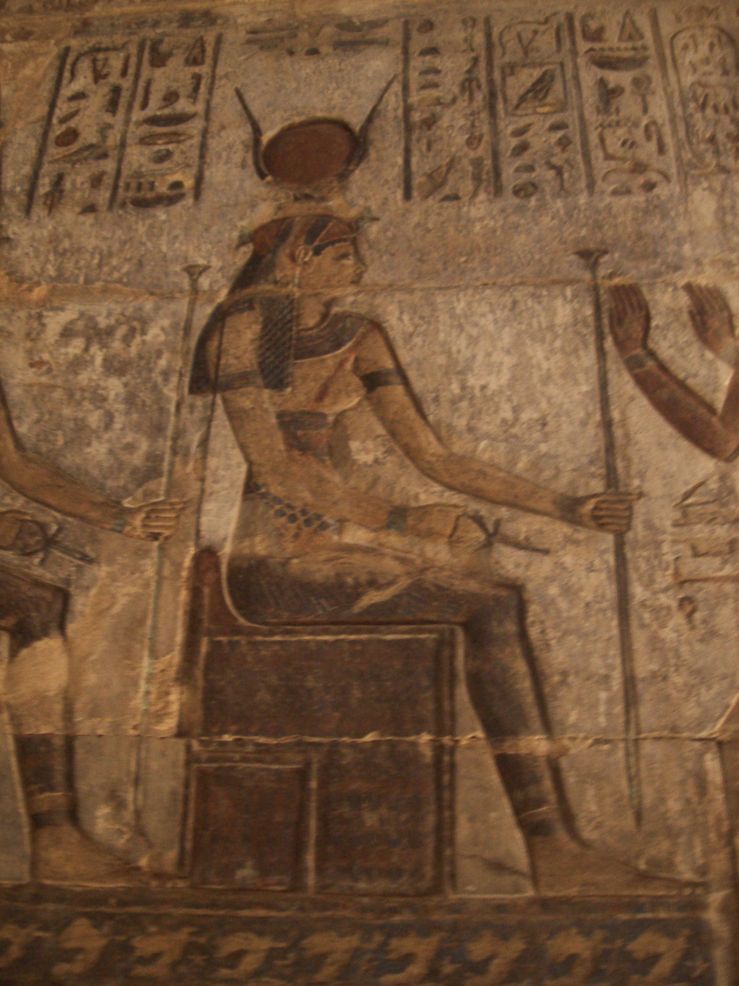 AWIB-ISAW: Ptolemaic Temple Reliefs at Deir el-Medina (X) A painted relief of a seated Hathor in the Ptolemaic Temple to Hathor. by Kyera Giannini (2009) copyright: 2009 Kyera Giannini (used with permission) photographed place: (Deir el-Medina) [ Published by the Institute for the Study of the Ancient World as part of the Ancient World Image Bank (AWIB). Further information: [